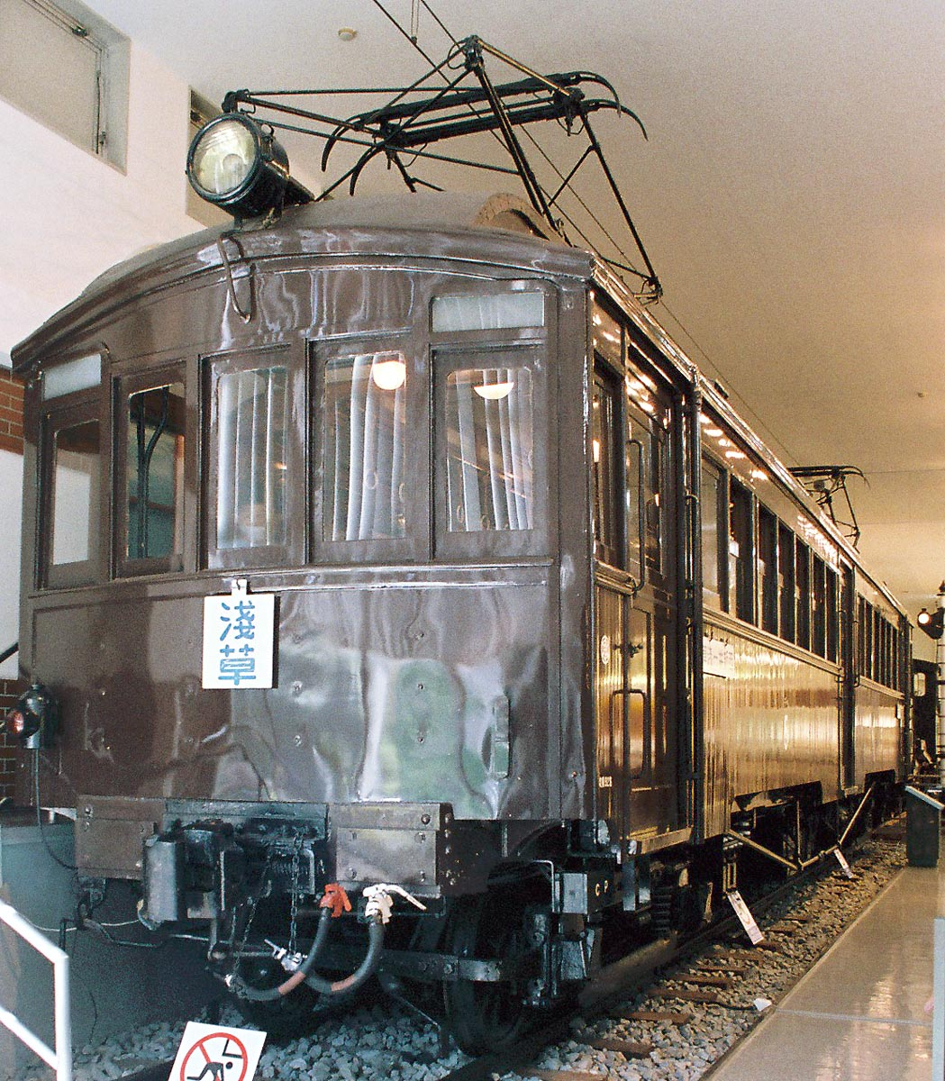 Tobu Railway Type Deha 1 EMU(No.5) at Tobu Museum,September 2009